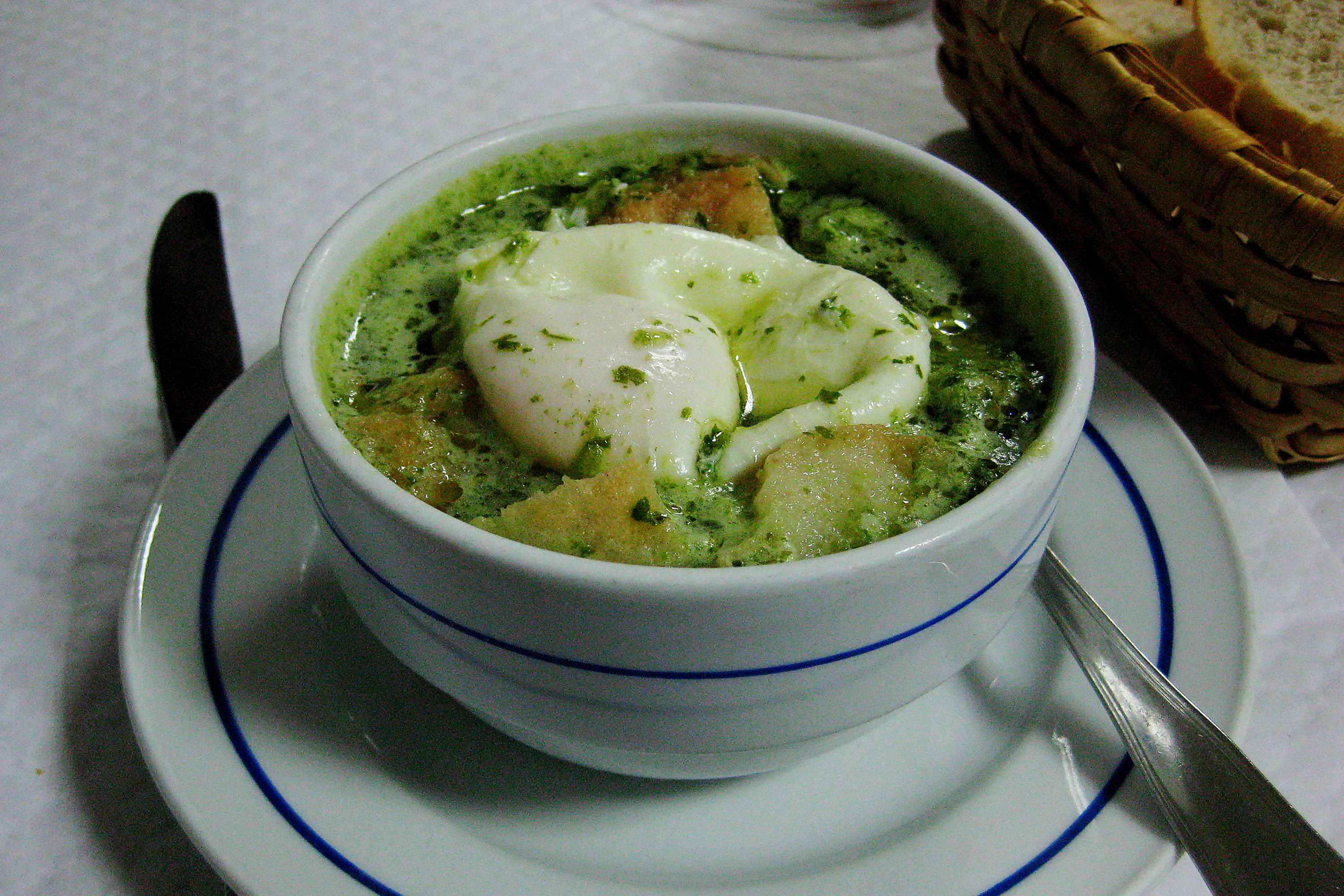 Açorda à alentejana, a traditional portuguese dish made of bread, fish and an egg.